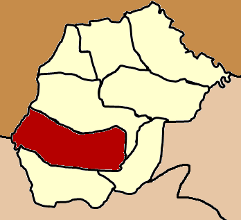 Map of Mae Sai (district) with Pong Ngam highlighted.